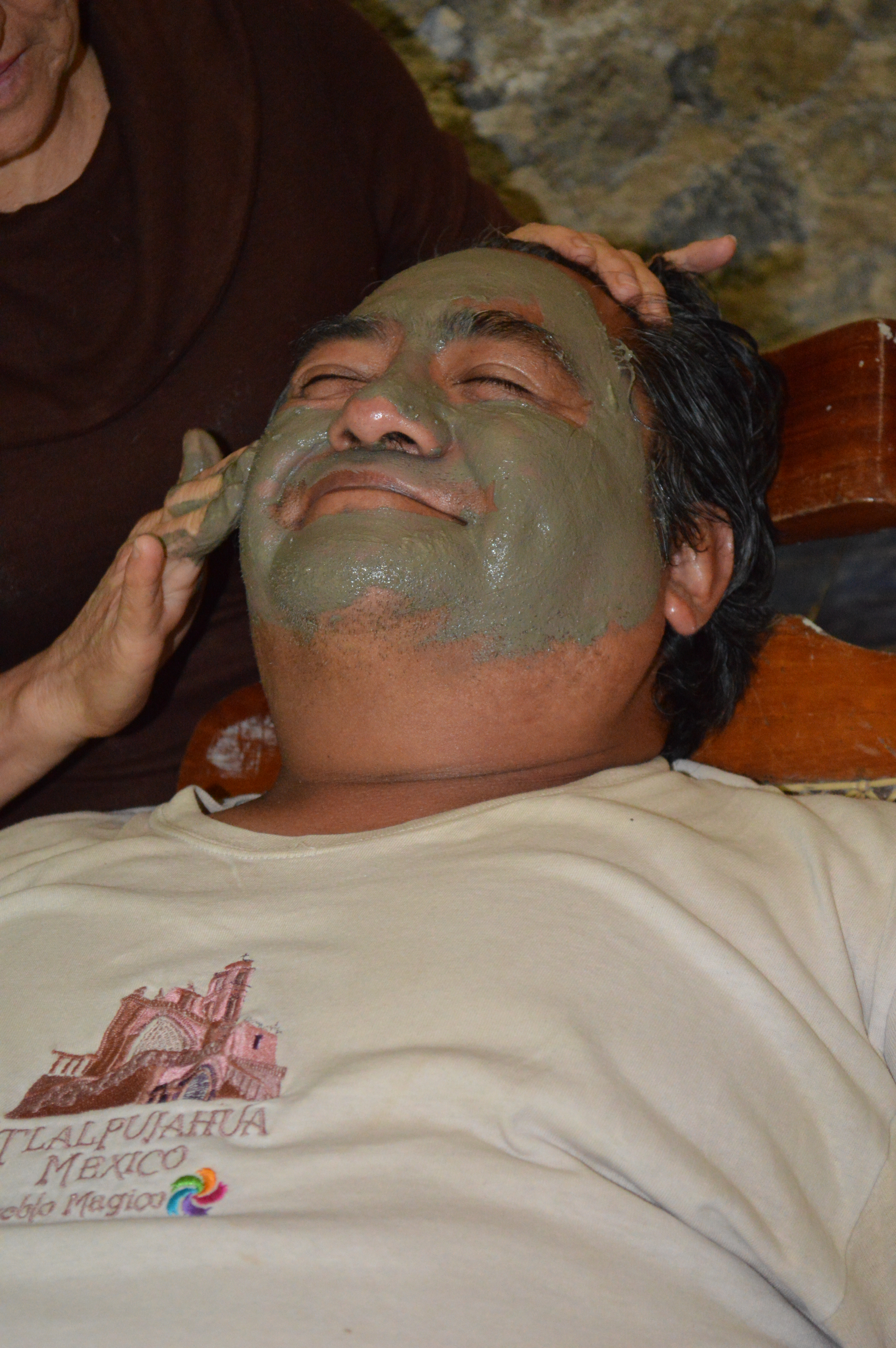 AlejandroLinaresGarcia gets a mud facial treatment at the Nanciyaga Ecological Park in Catemaco, Veracruz